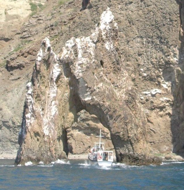 The Golden Gate with the pleasure boat inside, mount Karadah, Crimea